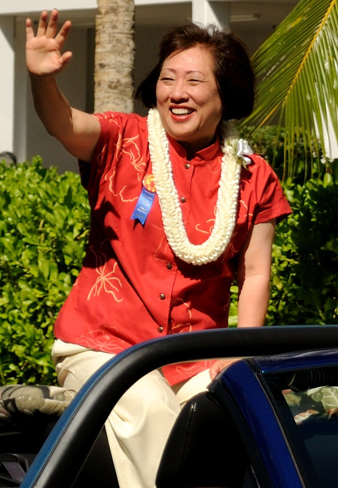 Colleen Hanabusa as a candidate for the United States House of Representatives at the Aloha Floral Parade